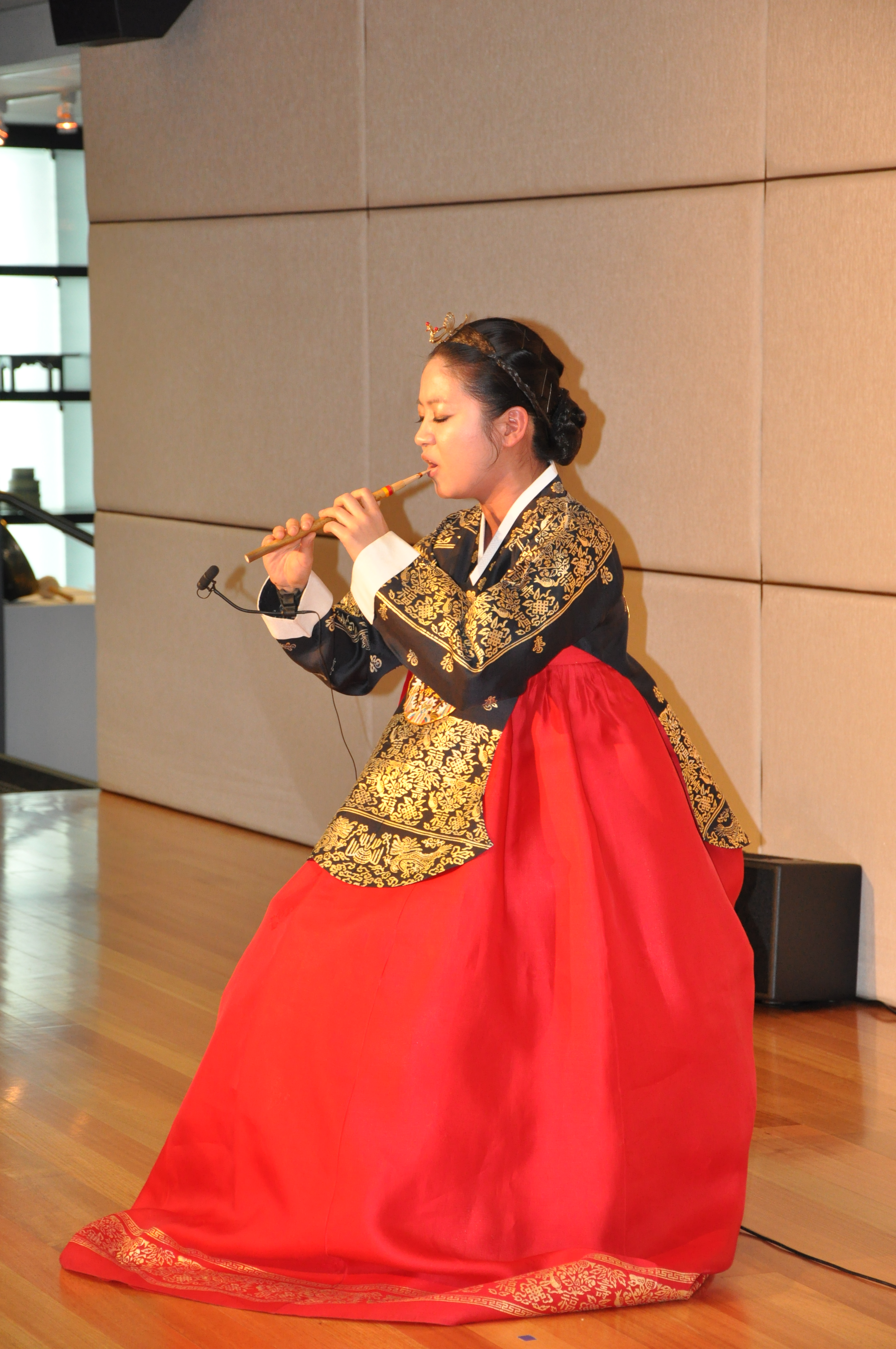 A new Korean Cultural Center opened on April 4 in Sydney to mark the 50 anniversary of the establishment of diplomatic relationship between Korea and Australia.